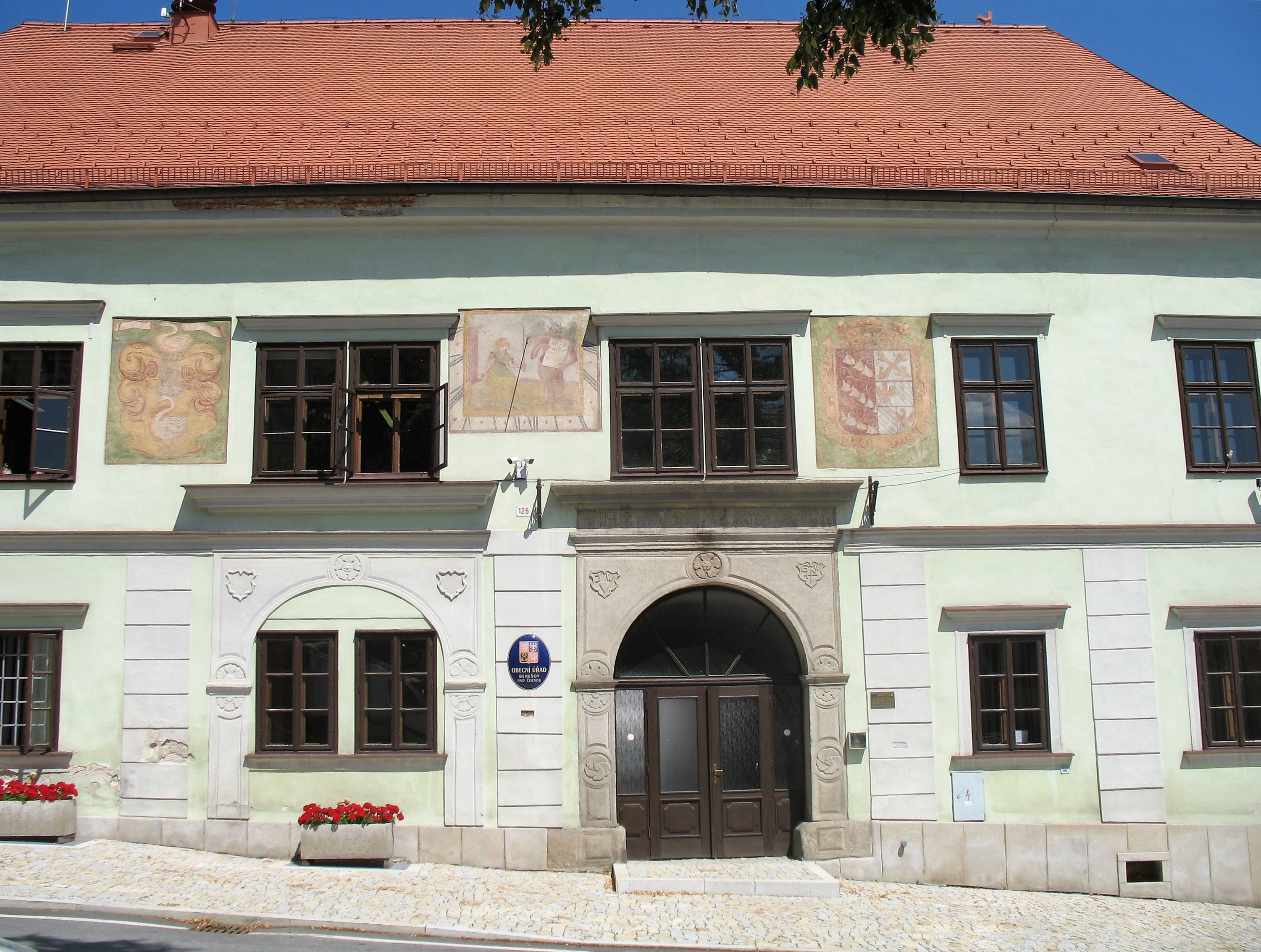 Town Hall in Benešov nad Černou, Český Krumlov District